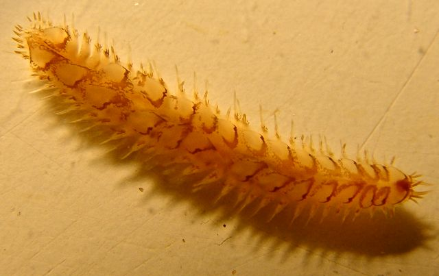 Lepidonotus squamatus - found on Greater Cumbrae, Scotland